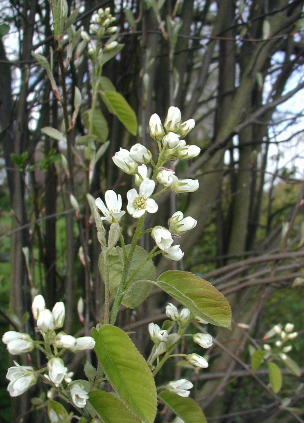 Amelanchier spicata: Flowers